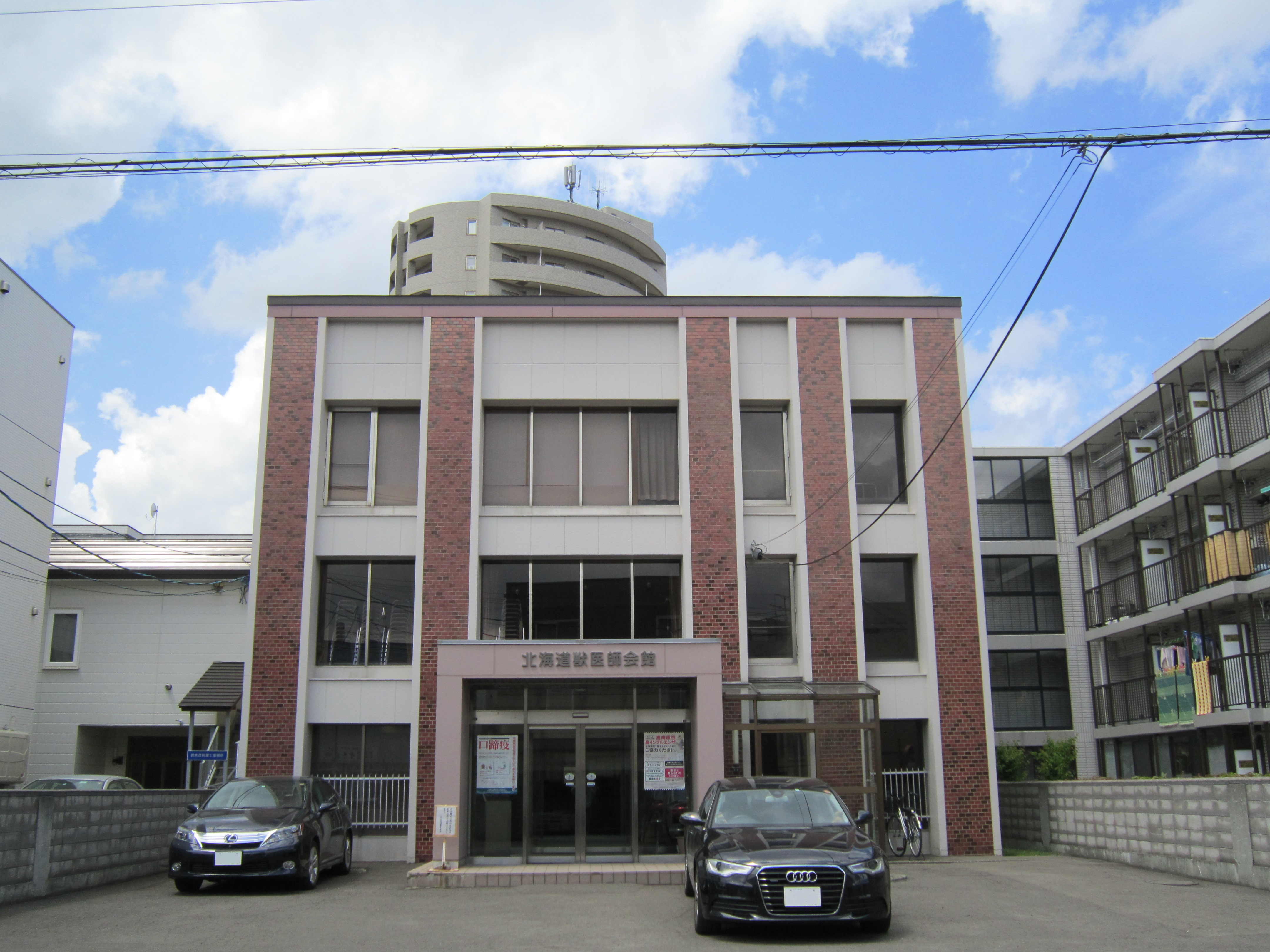 Hokkaido Veterinary Medical Association Hall